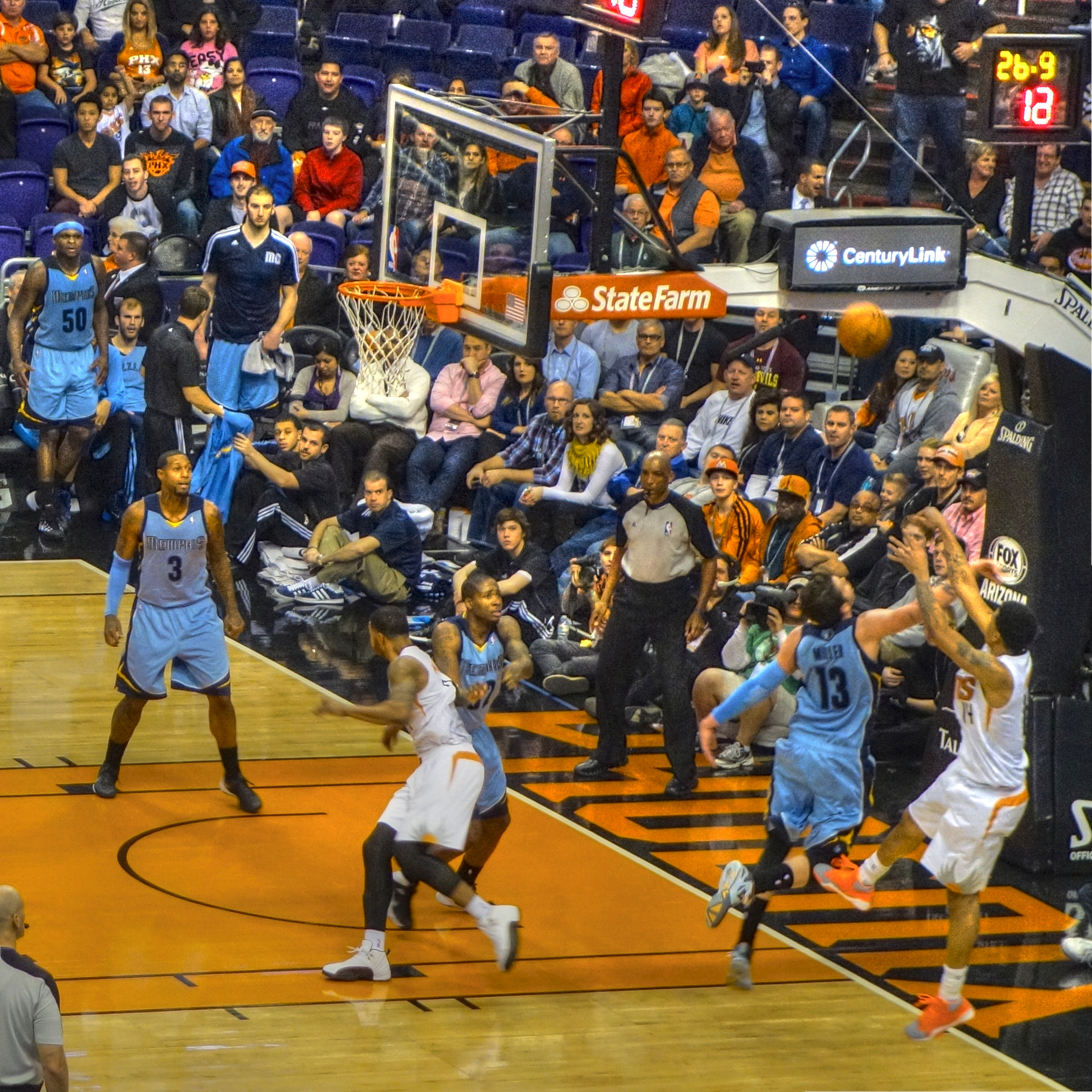 Gerald Green of the Suns throws up a last second shot at the end of the 24-second clock. Phoenix Suns versus Memphis Grizzlies, January 2014.